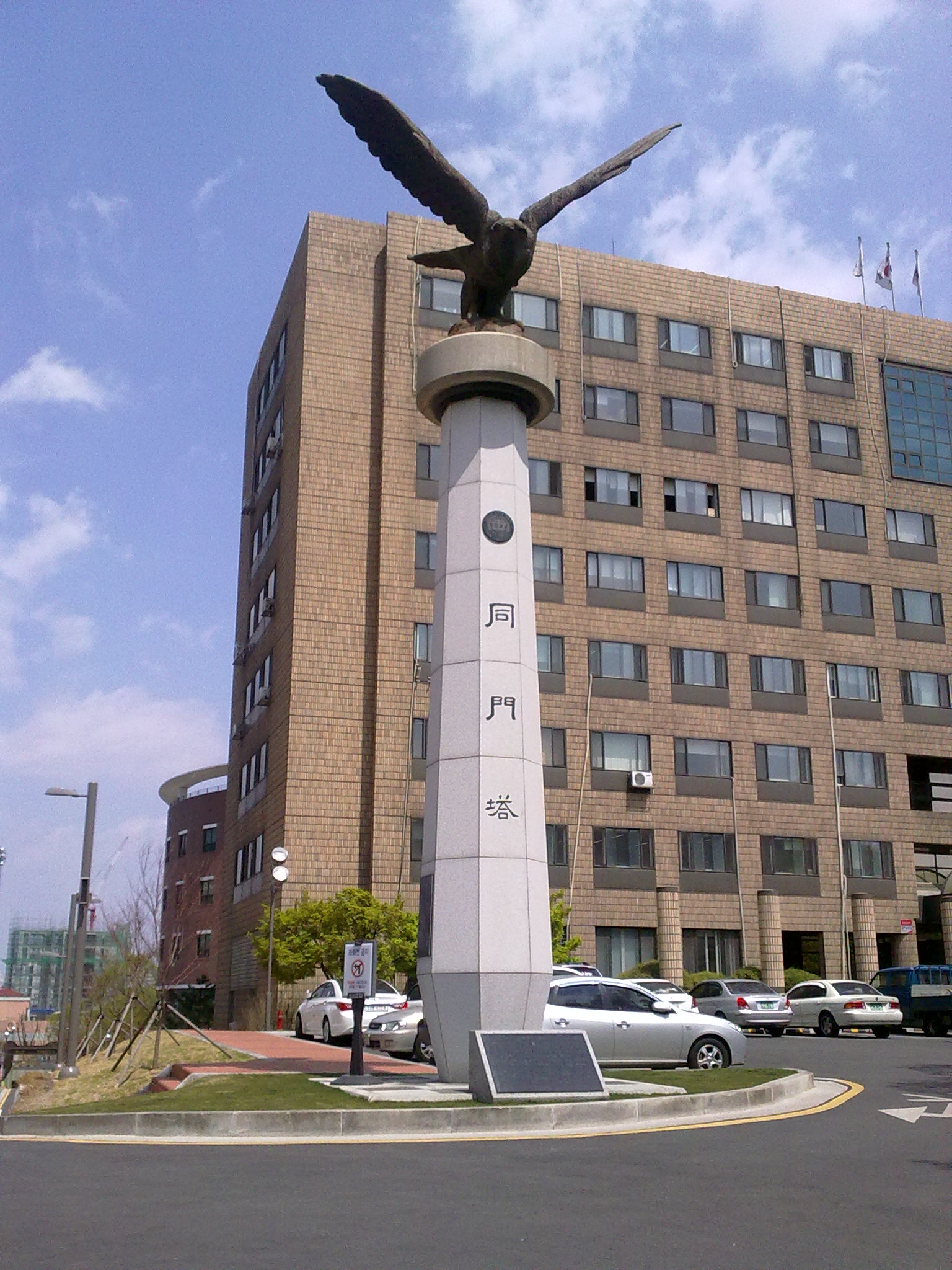 Alumni Tower. The bird image on the top of the tower is the Hawk of Jangsan Cape.